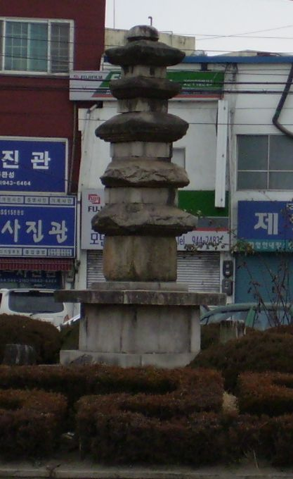 Five-story stone pagoda from the Arimsa temple, dating from the Goryeo period, now at the center of a downtown rotary in Geochang, Gyeongsangnam-do, South Korea.